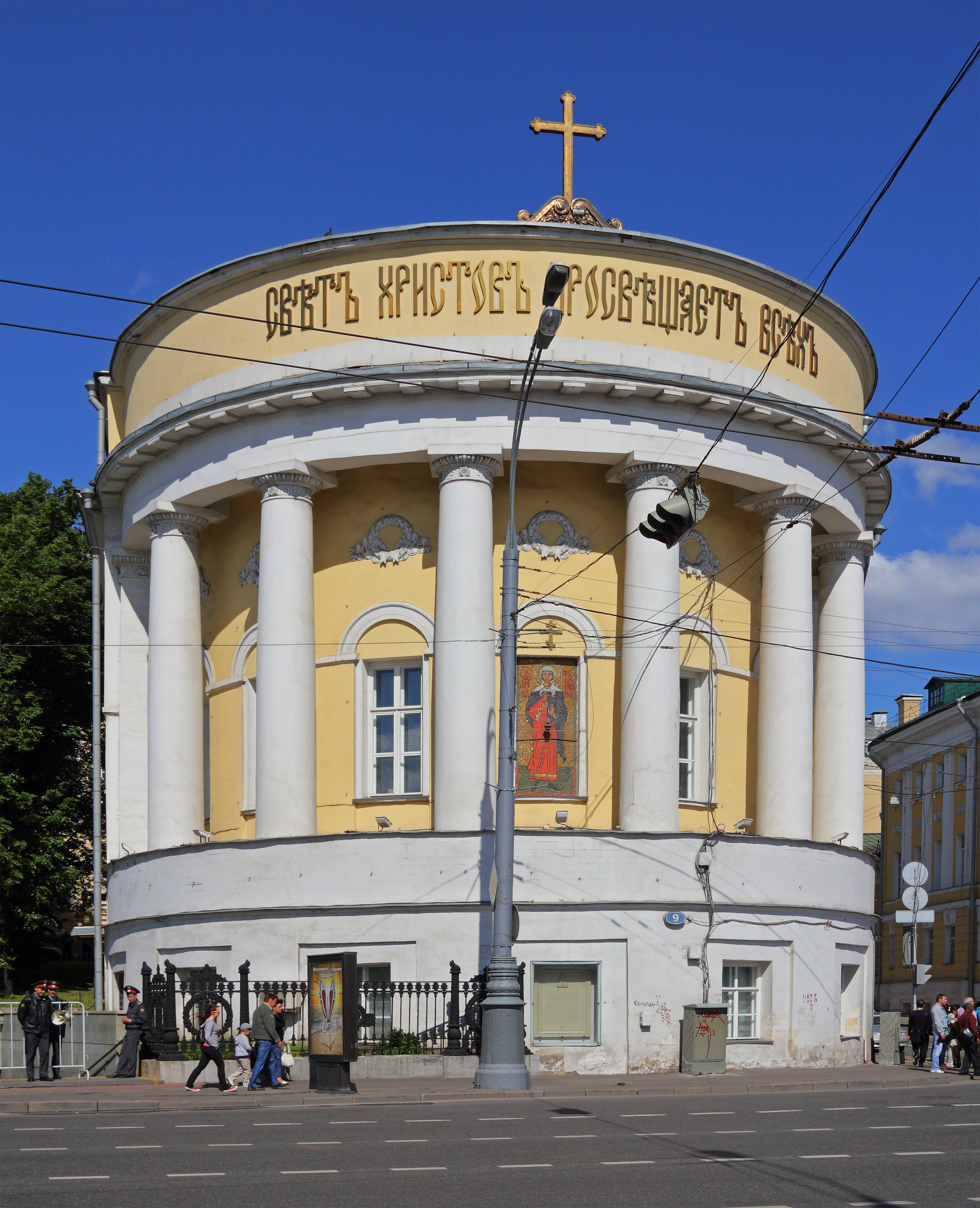 Moscow, Russia. Mokhovaya Street, old buildings of the Moscow State University. St. Tatiana Church.